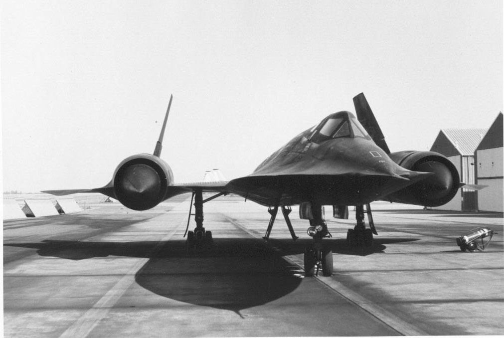 Lockheed SR-71 front view